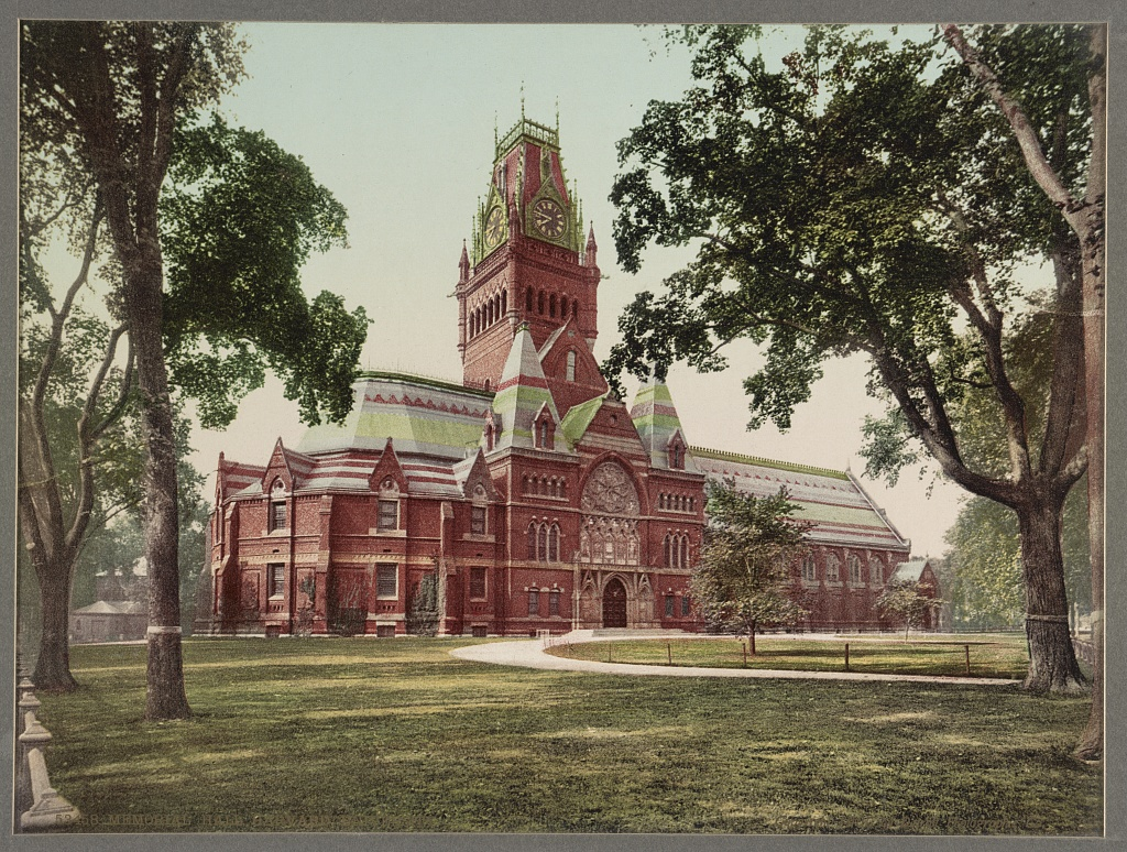 Memorial Hall (Harvard University), showing clocks added 1897